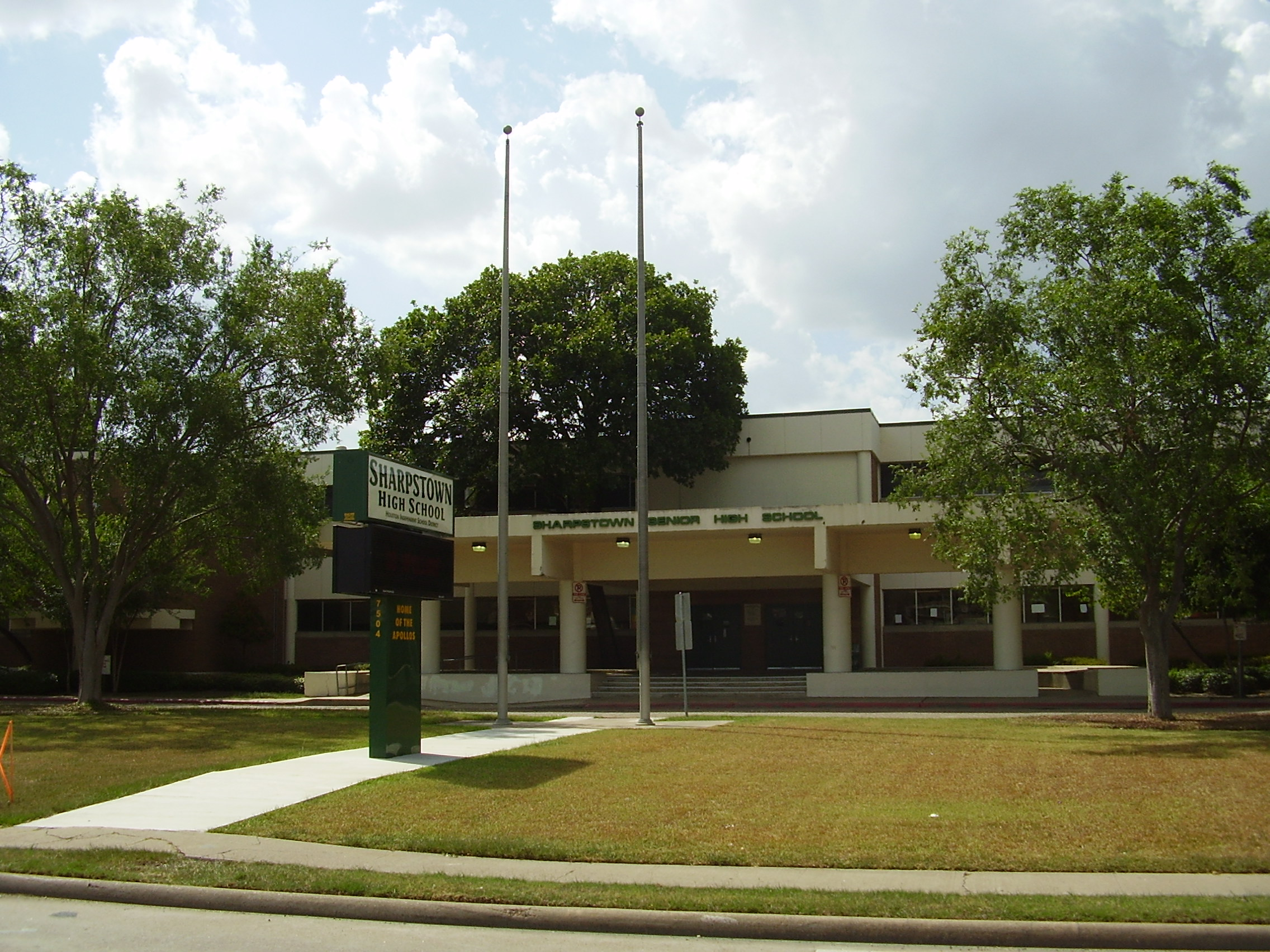 Sharpstown High School